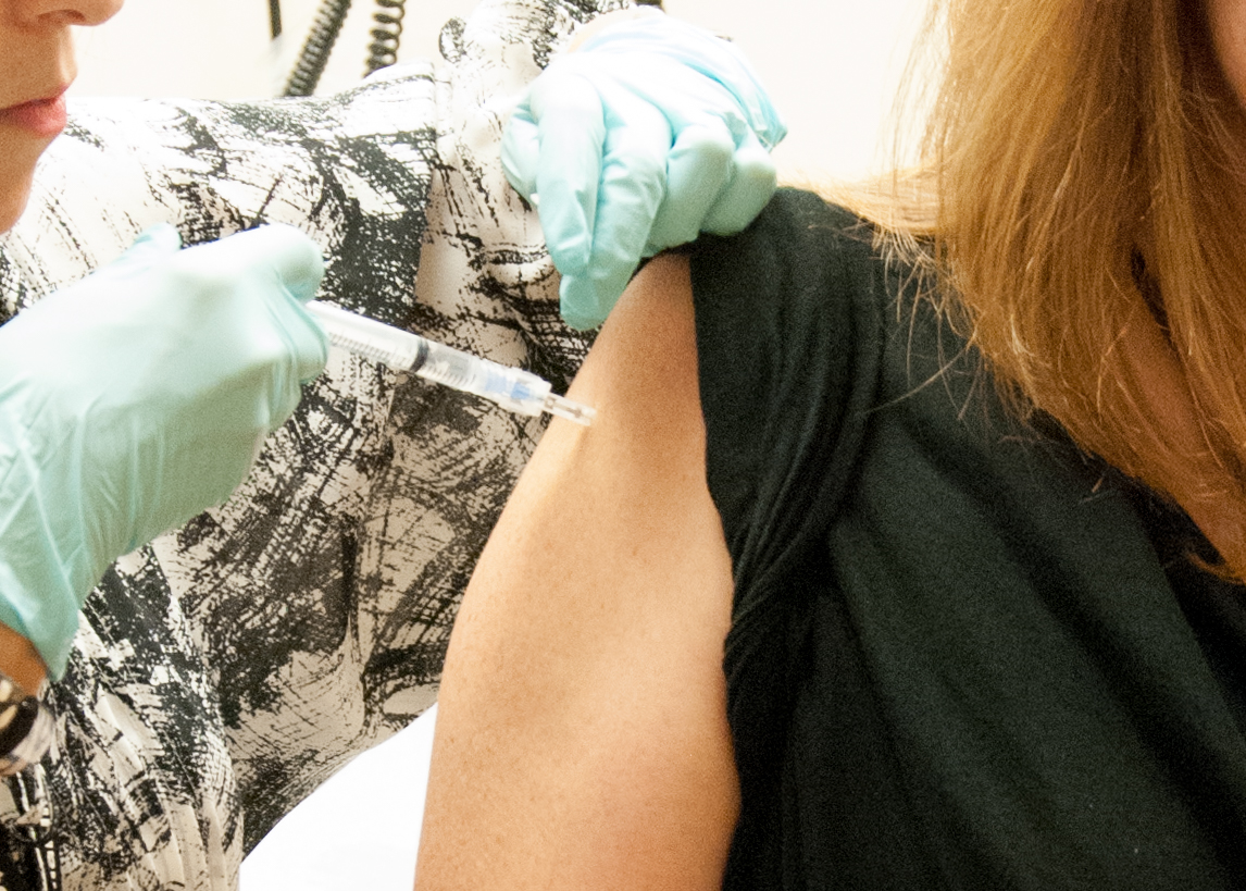 September 2, 2014 — A 39-year-old woman, the first participant enrolled in VRC 207, receives a dose of the investigational NIAID/GSK Ebola vaccine at the NIH Clinical Center in Bethesda, Md. Credit: NIAID